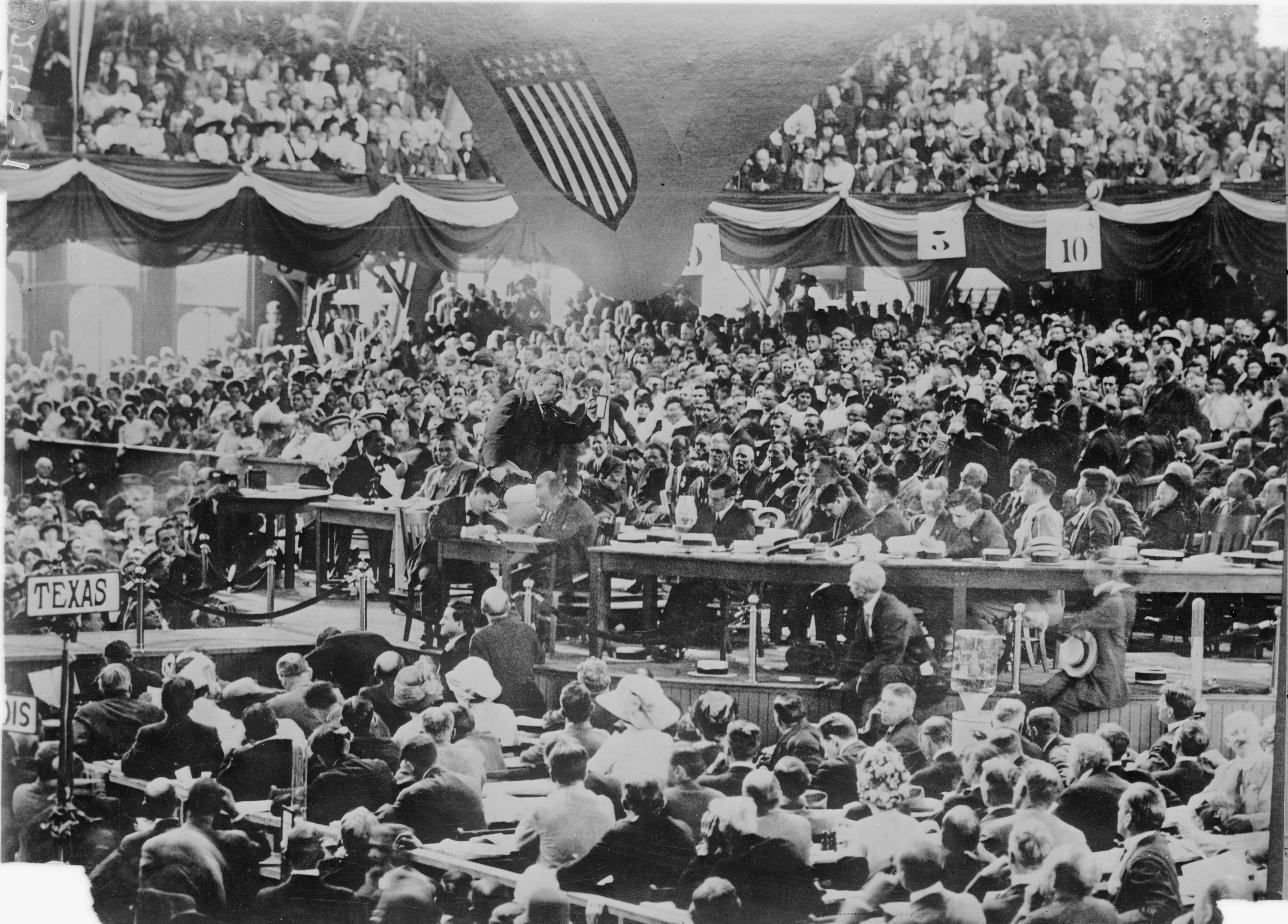 Bain News Service,, publisher. Roosevelt speaking convention hall Chicago [between 1910 and 1915] 1 negative : glass ; 5 x 7 in. or smaller. Notes: Title from unverified data provided by the Bain News Service on the negatives or caption cards. Forms part of: George Grantham Bain Collection (Library of Congress). Subjects: Chicago Format: Glass negatives. Repository: Library of Congress, Prints and Photographs Division, Washington, D.C. 20540 USA, General information about the Bain Collection is available at Persistent URL: Call Number: LC-B2- 2495-9